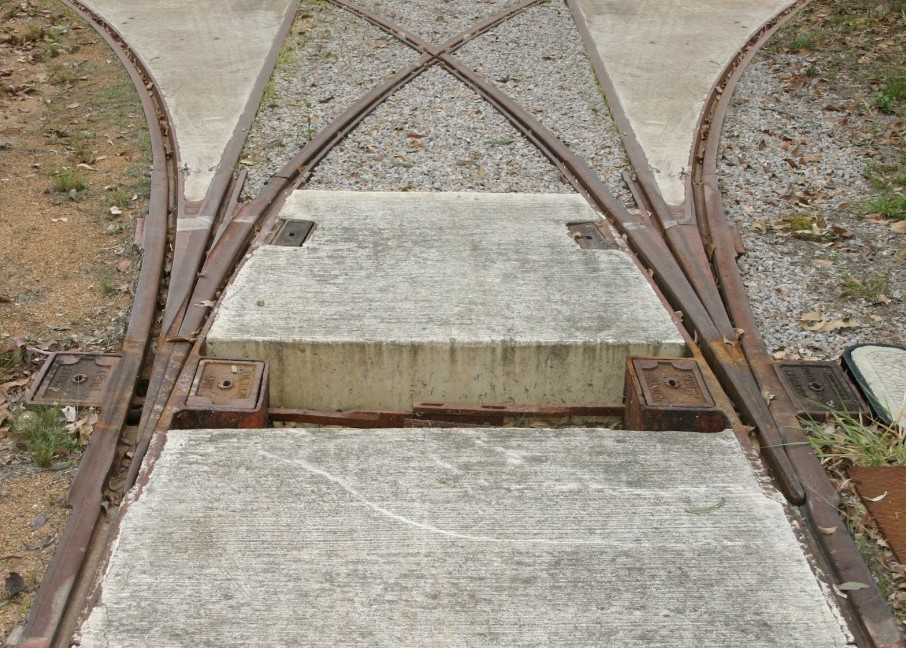 3 way set of points (or switches) formerly at the Light Street tram depot in Newstead, the points are now located at the Brisbane Tramway Museum.